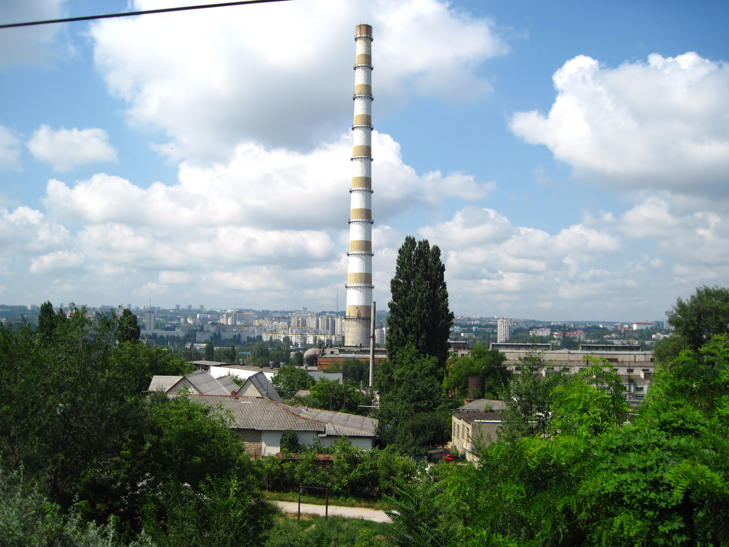 CET-1 chimney and panorama, looking SW